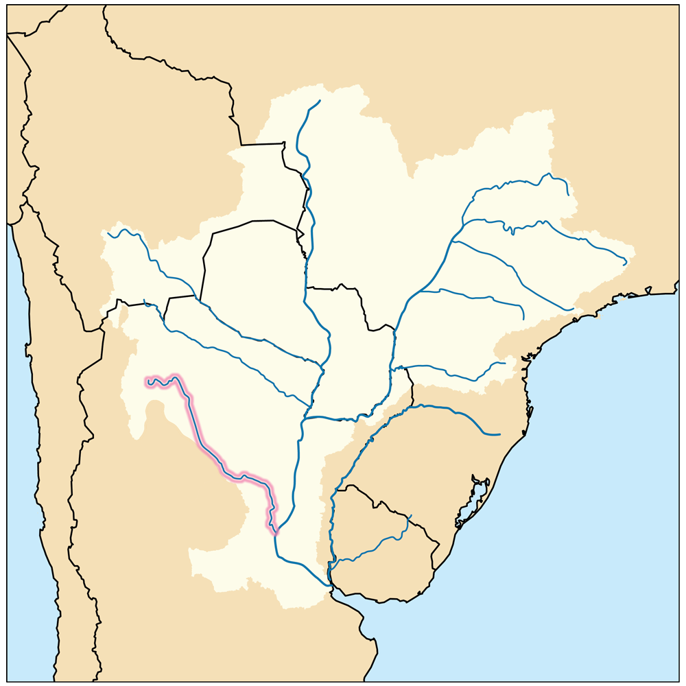 This is a map showing the Salado del Norte River highlighted within the Paraná River drainage basin.